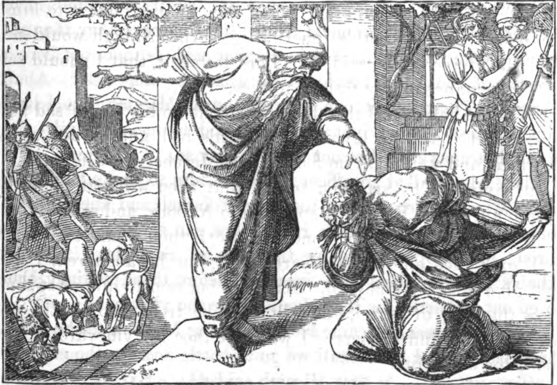 Elijah condemns Ahab.